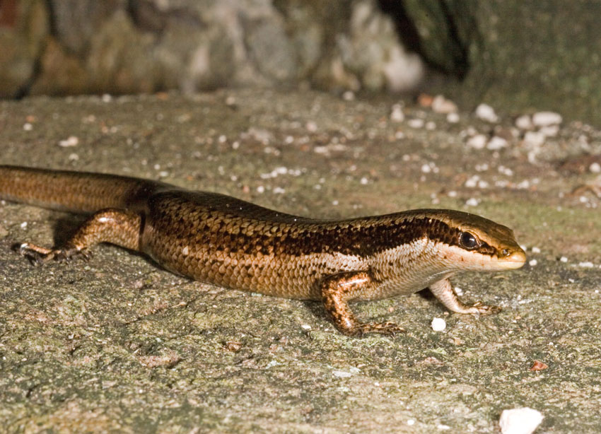 Mabuya mabouya. Cabrits National Park, north-western Dominica